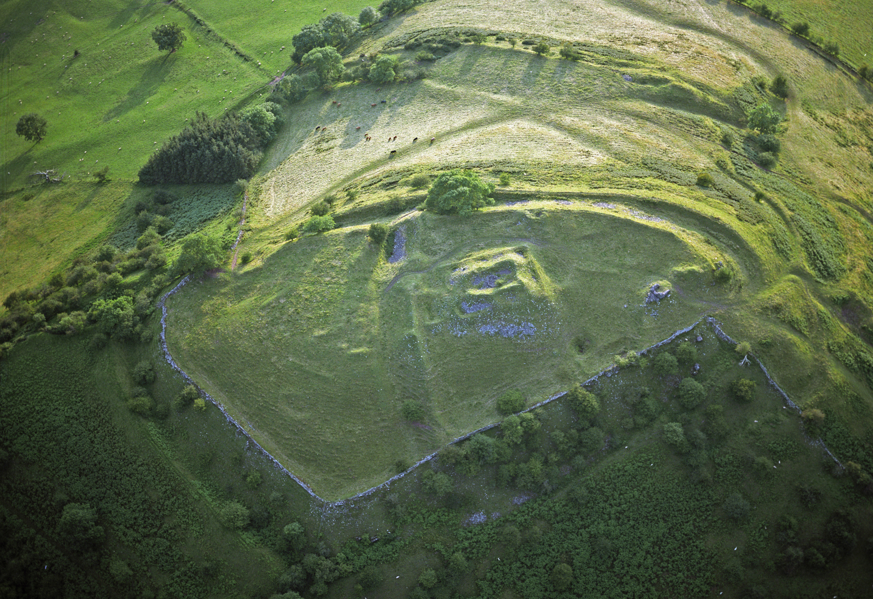 Castell Dinas Castle seen from the air, with remains of norman keep and earthworks clearly visible.